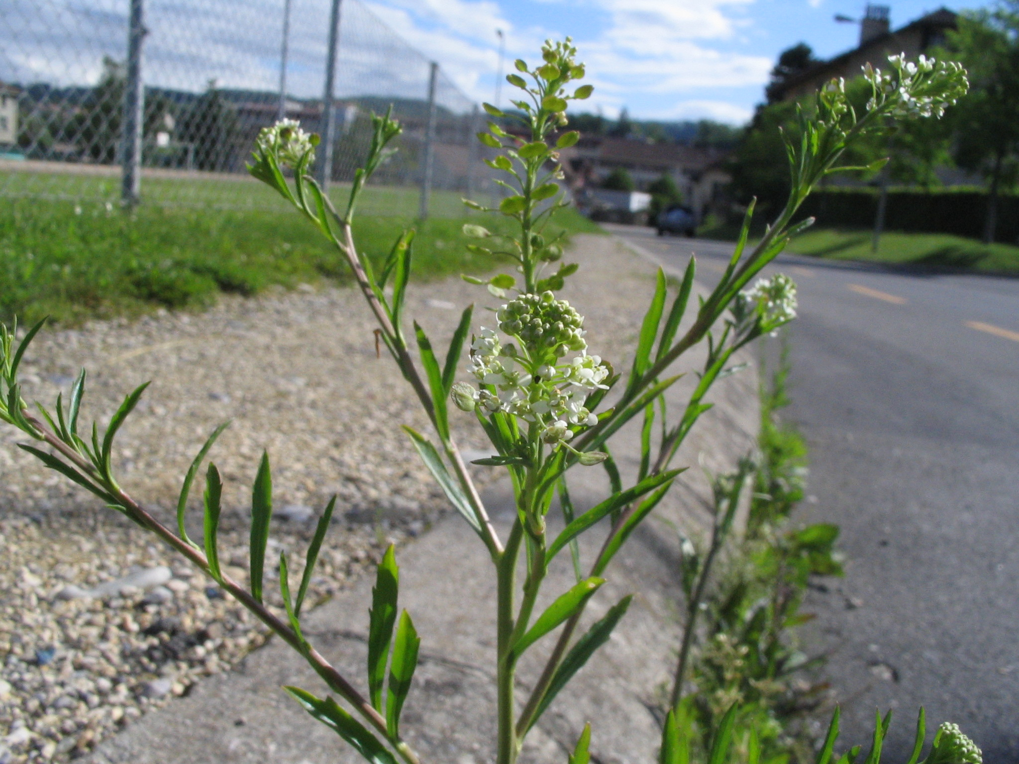 Description: Lepidium virginicum Photo: Alain Jotterand, Renens (CH), bord de route, 19.6.2006